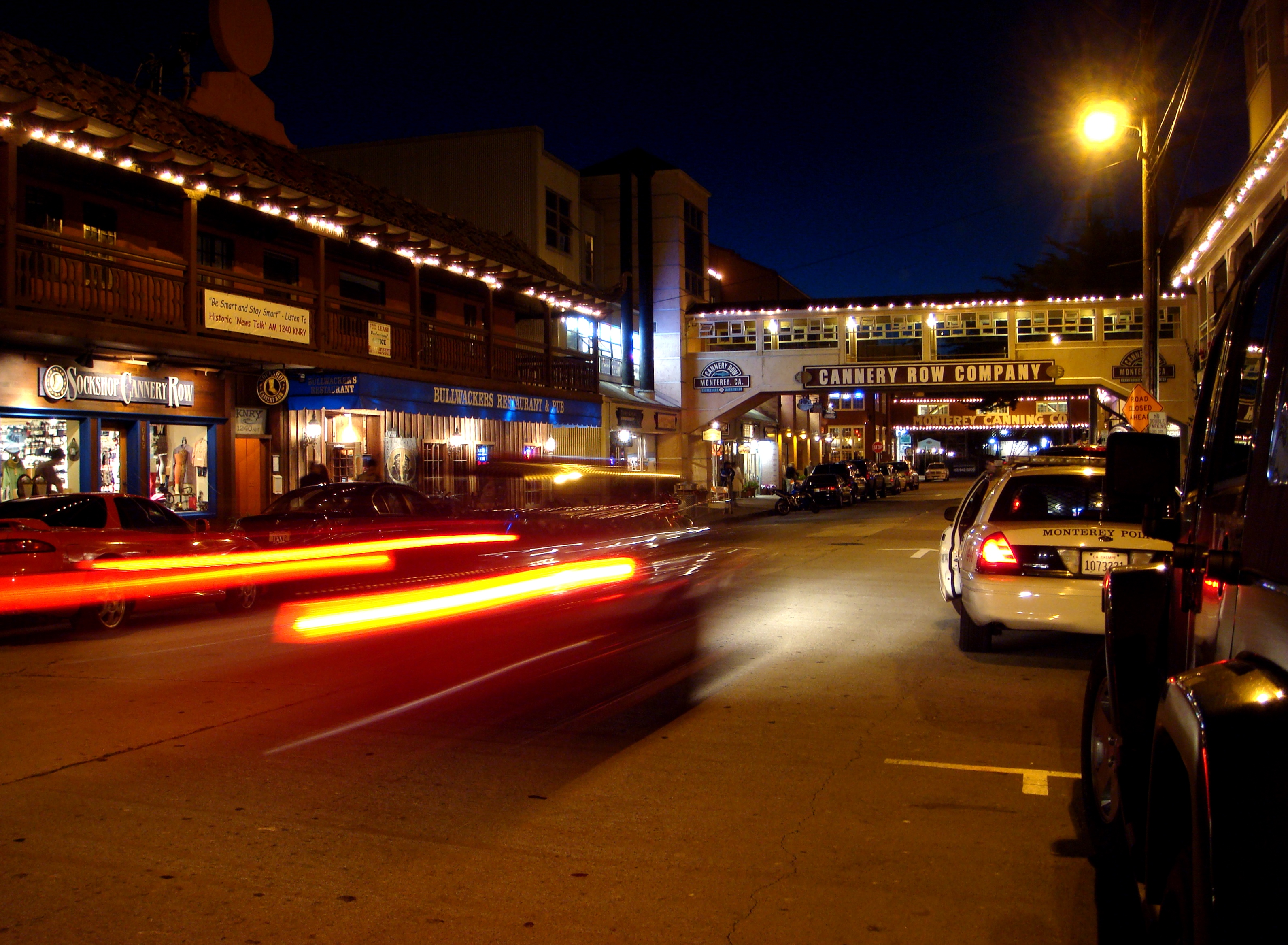 Cannery Row at Night. Dusk over the city of Monterey on Cannery Row (formerly Ocean Ave.) as cars pass by while City police investigate a vehicle blocking a hotel entrance. On the street in front of the south end of, 652 Cannery Row, Monterey, CA 93940.